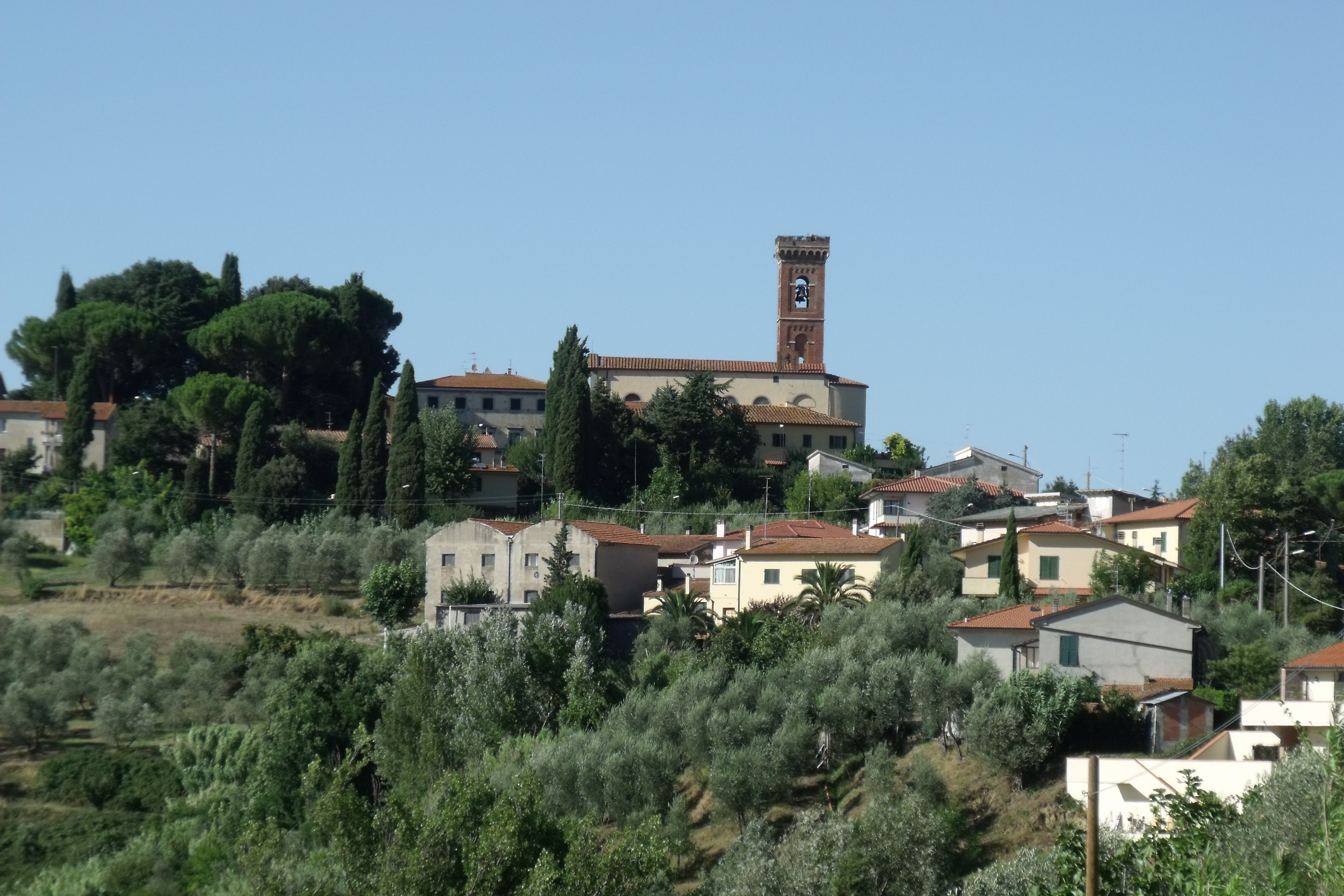 Panorama and Church Chiesa Santi Pietro e Paolo (Belvedere) in Capannoli, Province of Pisa, Tuscany, Italy